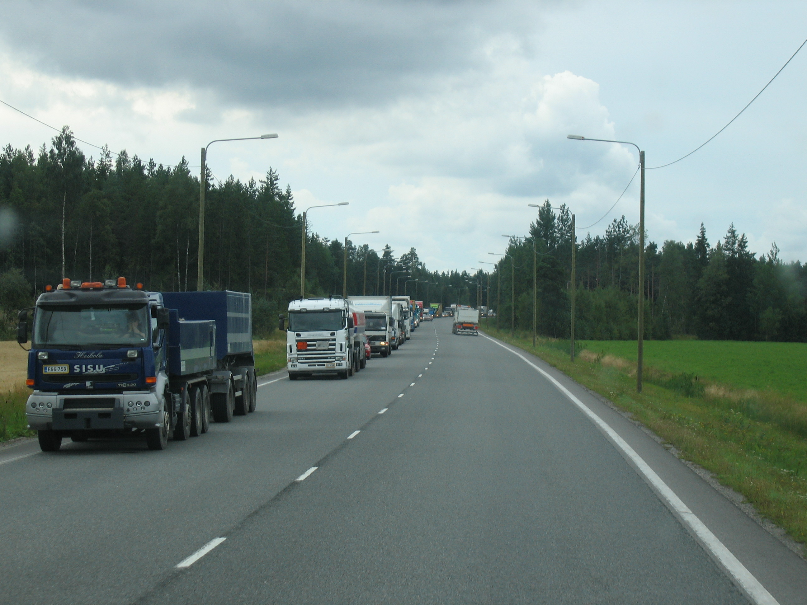 Special, wide two-lane road used at some stretches in Finland. Photograph taken on the national road 9 (E63) in Aura, Southern Finland after car crash had closed road from traffic.